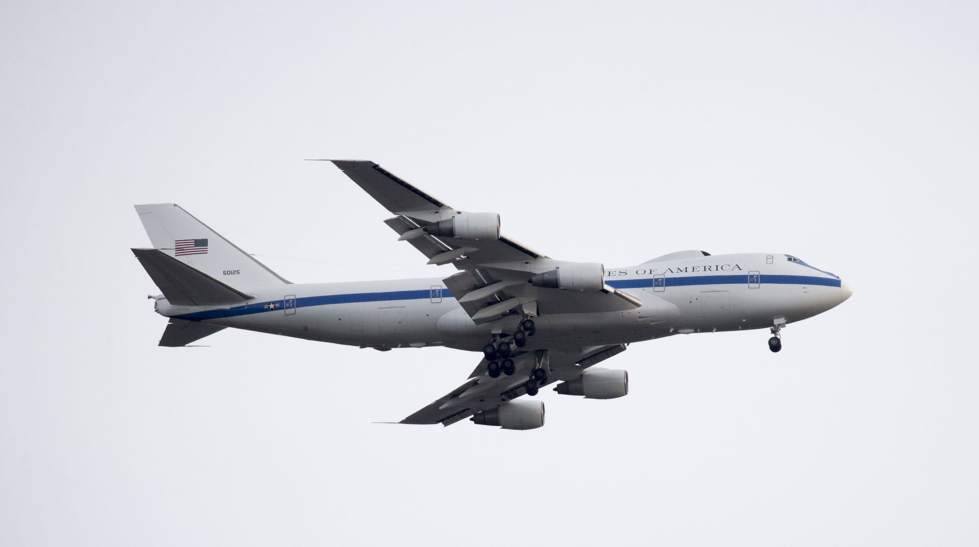 In flight near FedEx Field during the Bills at Redskins game on 12/20/15